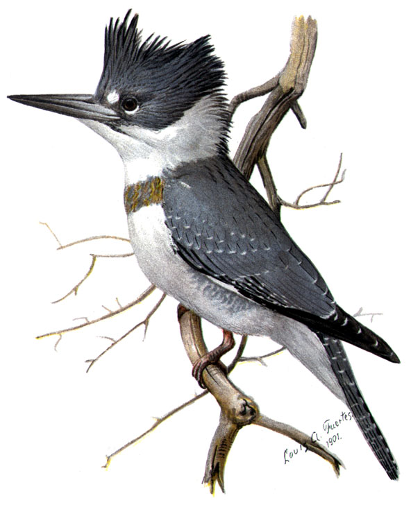 Belted Kingfisher, Ceryle (Megaceryle) alcyon, chromolithograph after painting (watercolor or acrylic)